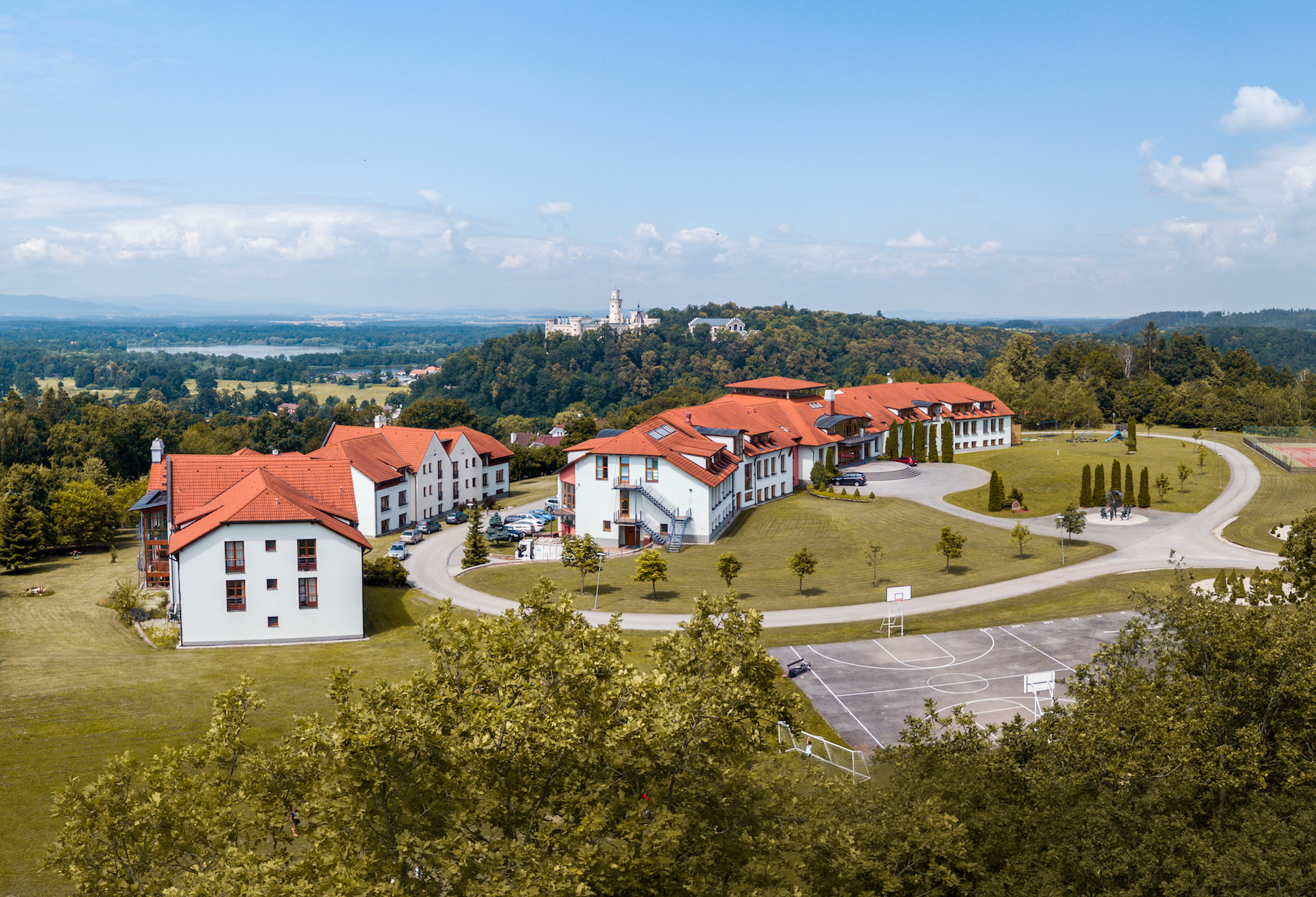 School campus in Hluboka nad Vltavou, Czechia